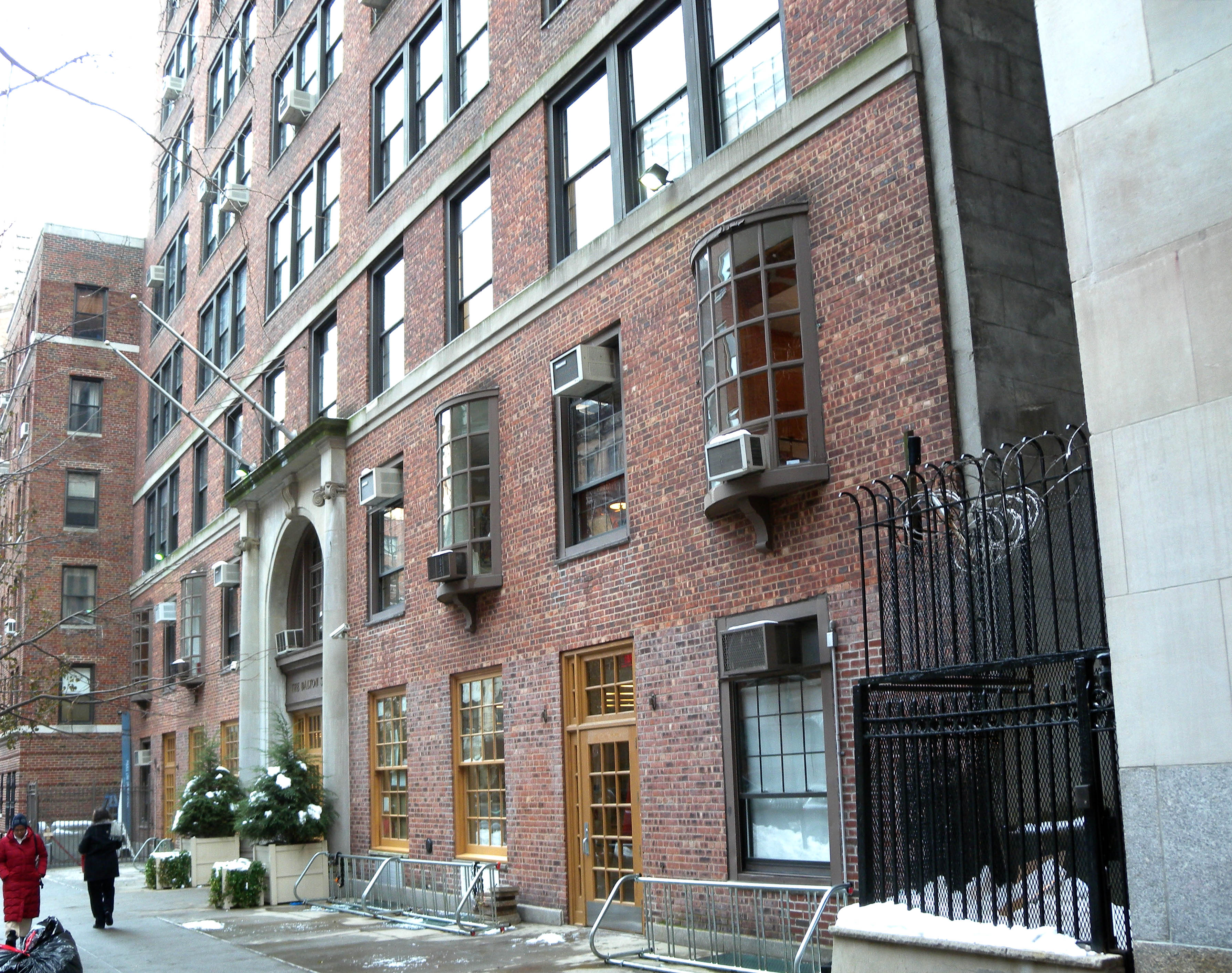 Looking southeast at Dalton School on a cloudy afternoon. See also File:Dalton School.jpg